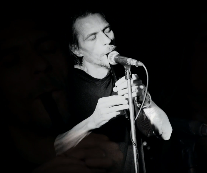 Ben Daglish performance at Underworld concert, 2016; The Last Ninja Wastelands loader composition